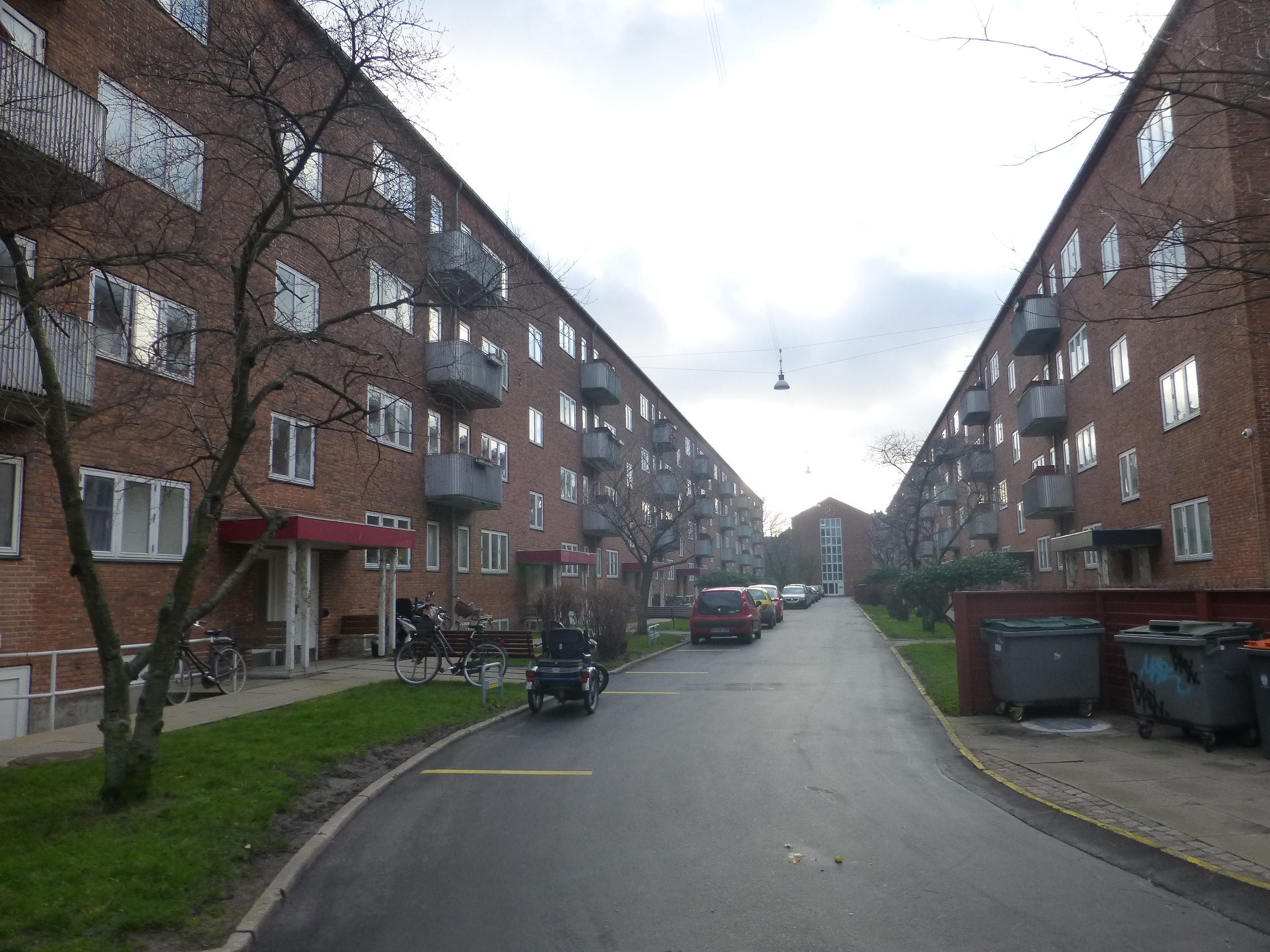 The street and area Guldbergs Have in Nørrebro in Copenhagen.